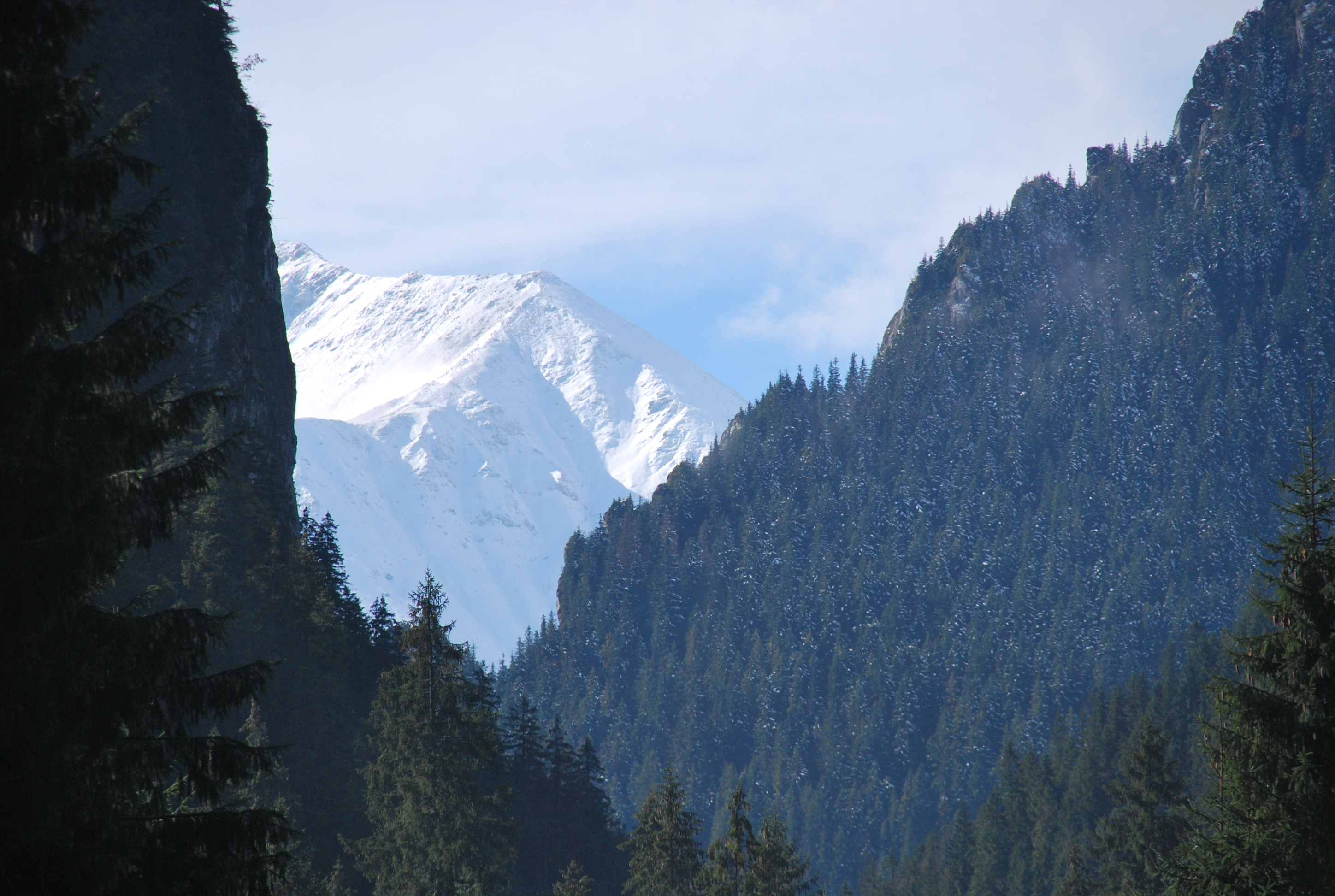 Bystra i Błyszcz ze Starych Kościelisk